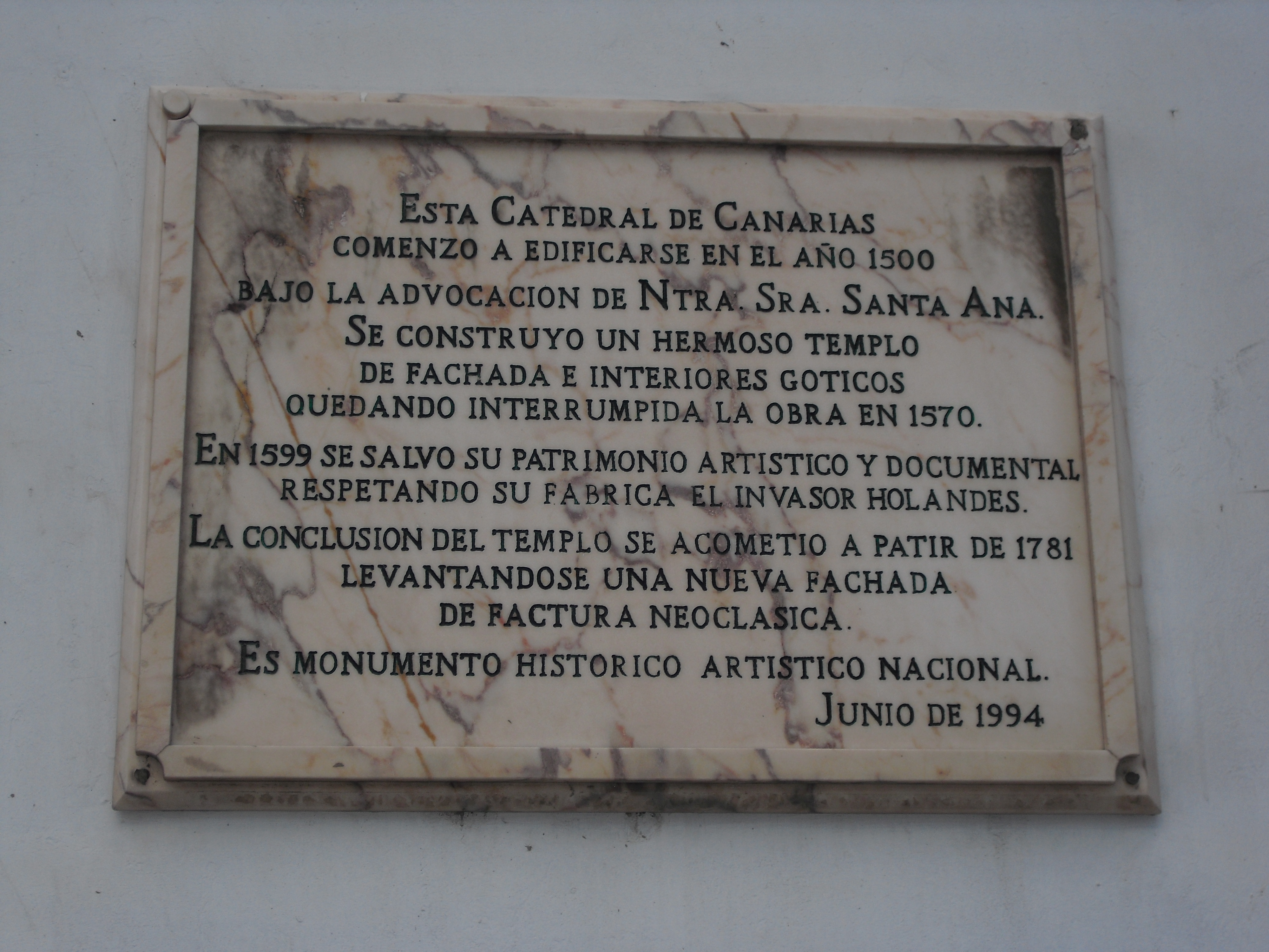 Lápida de la Catedral de Canarias